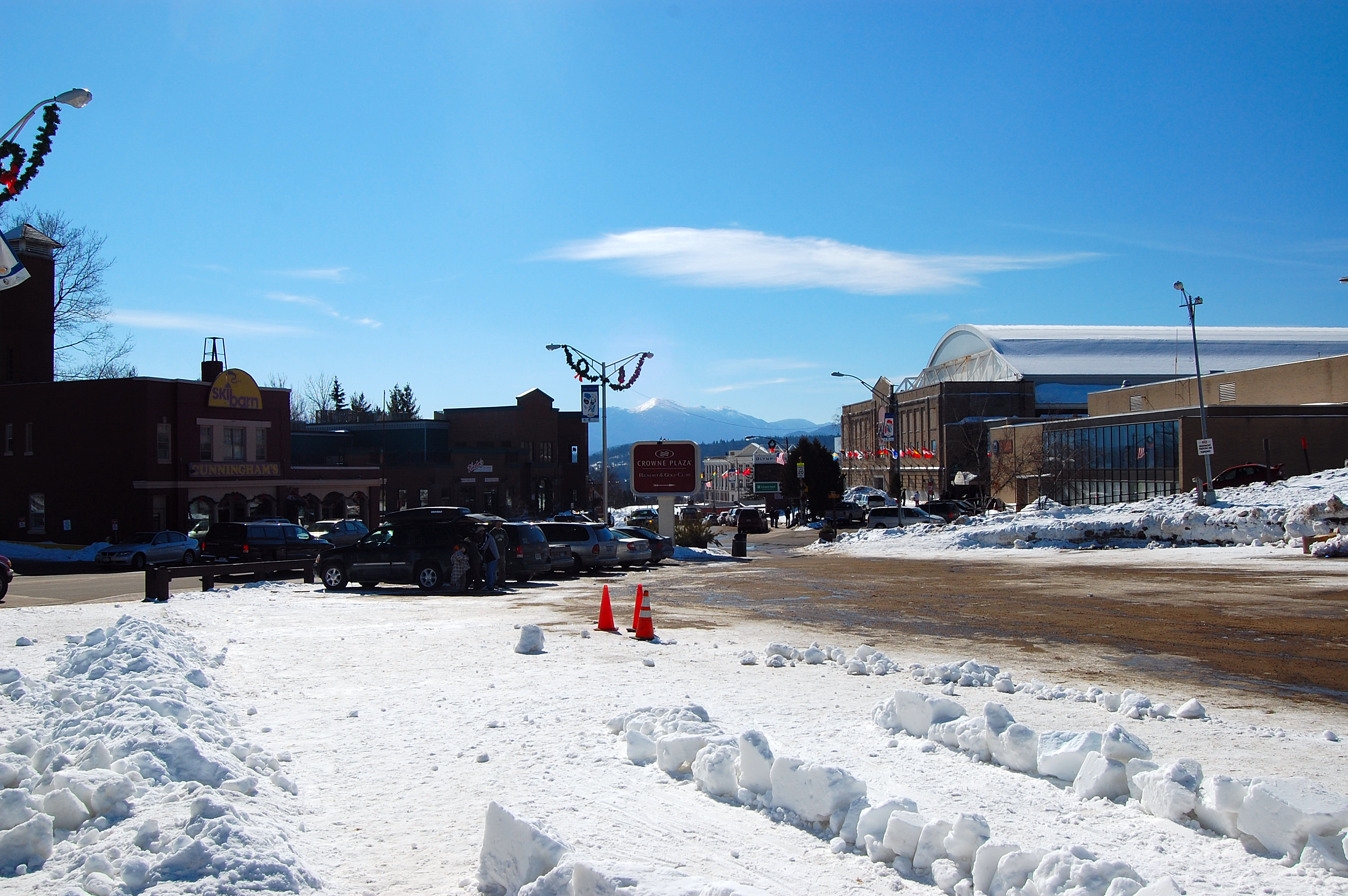 Olympic Center in Lake Placid, New York, USA